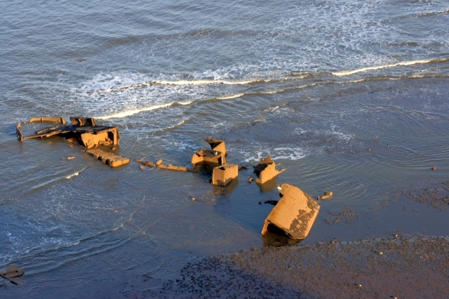 Shipwreck, The Scar. Battered remains of ship visible at low tide. This coast is notorious for ship wrecks. There have been so many that identification is generally difficult. However this could well be part of the Rohilla a 7409 ton luxury cruise ship which was requisitioned as a hospital ship when she went down just north of Saltwick Nab in 1914. 84 passengers and crew lost their lives but 139 were saved by the efforts of the lifeboatmen one of their greatest achievements. It is reported that the superstructure of the ship broke away and was washed ashore 500m away which would be about this spot. During the rescue the Whitby No. 2 lifeboat was smashed to pieces. For further details of this disaster or here Stephen McCulloch suggests this is the MV Creteblock, see 722553. I am sure he is correct but I'll leave the story of the Rohilla here because it is relevant to this stretch of coast.